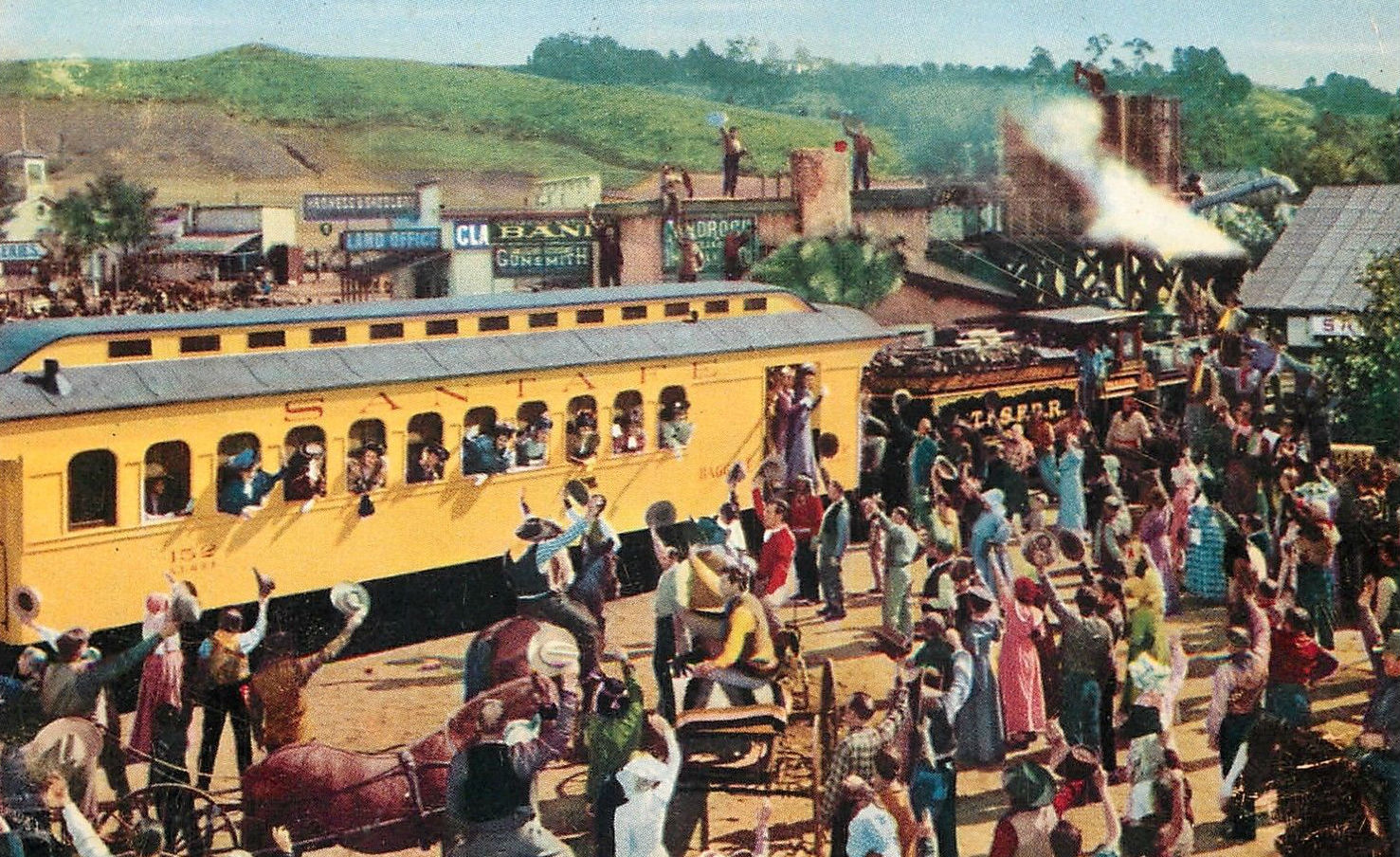 Photo postcard with a scene from the filming of The Harvey Girls (1946). This scene includes a Santa Fe train circa 1890s.